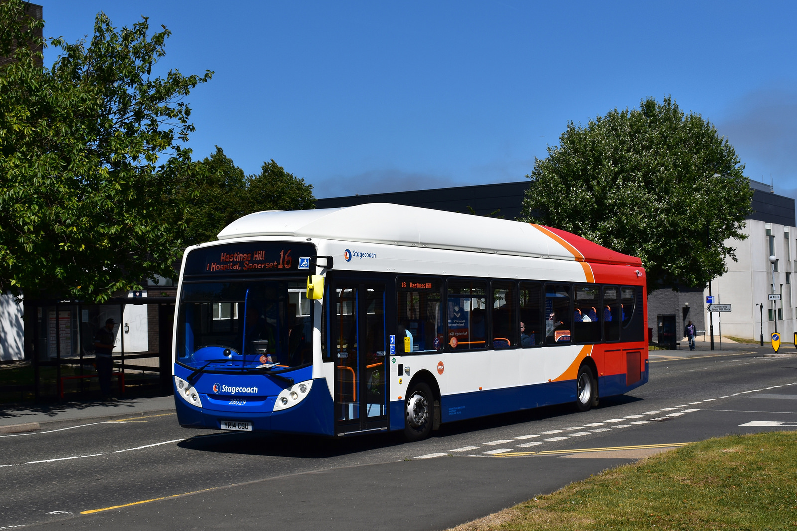 Stagecoach North East Scania K270UB/Alexander Enviro 300 Gas 28029 YR14CGU is pictured on Chester Road in Sunderland while operating service 16.